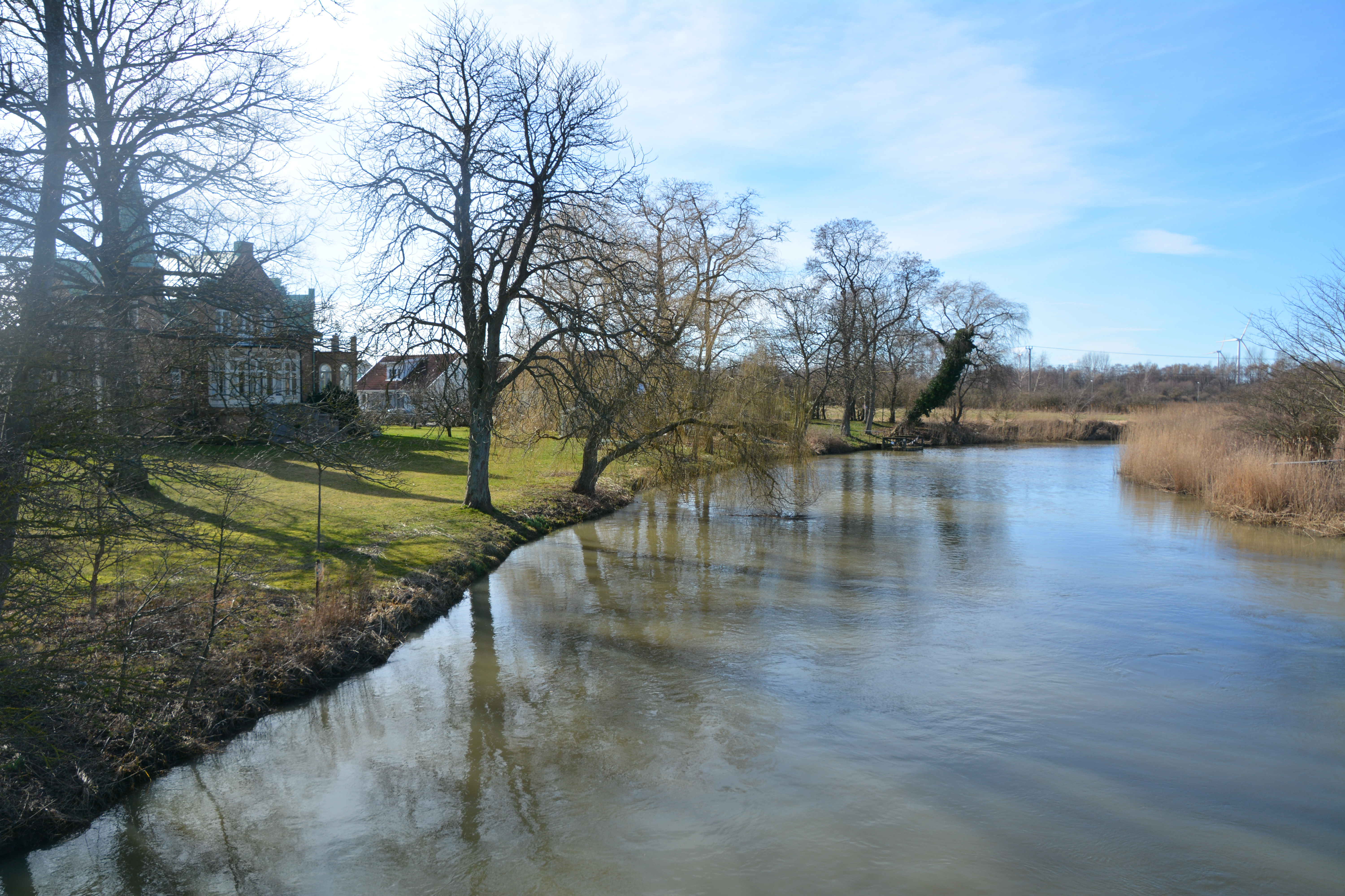 Saxån at Ammemarieholm Mansion, near Häljarp